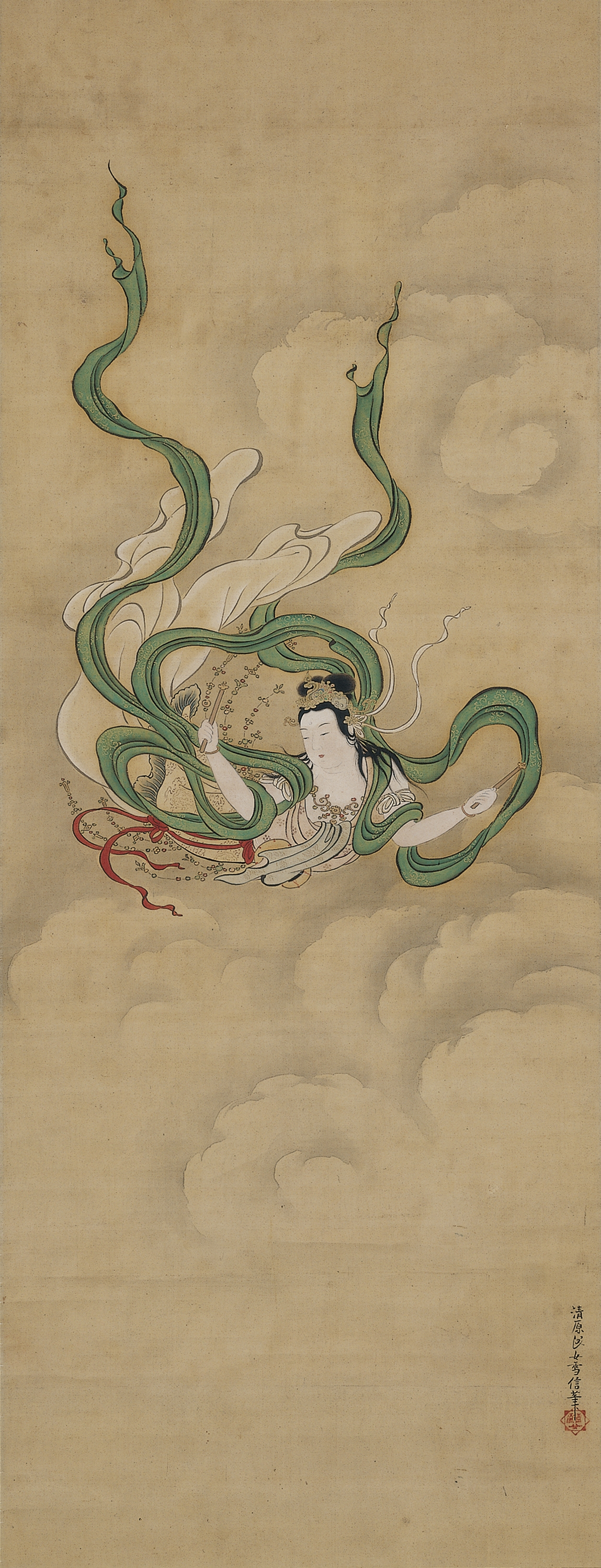 Kiyohara Yukinobu, Japanese, 1643 - 1682; Flying Celestial (Apsaras); second half 17th century; Hanging scroll; Ink, color, and gold on silk; 45 7/8 × 17 5/8 in. (116.52 × 44.77 cm) (image)77 5/16 × 22 1/4 in. (196.37 × 56.52 cm) (mount, without roller); Minneapolis Institute of Art; Mary Griggs Burke Collection, Gift of the Mary and Jackson Burke Foundation; L2015.33.70